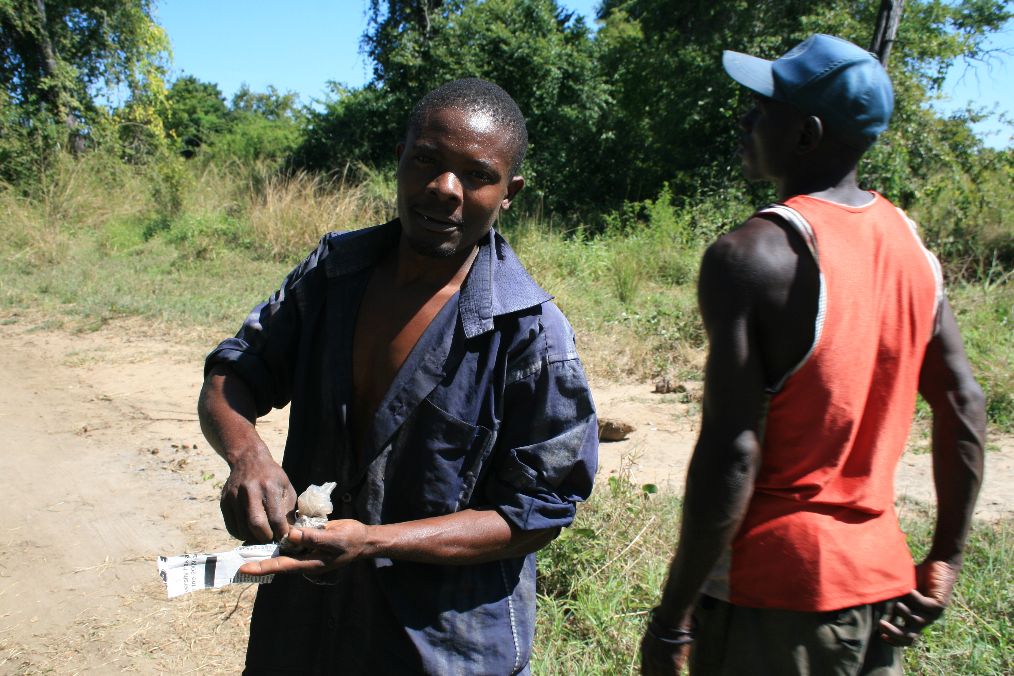 Kunda People in Zambia, near Mfuwe